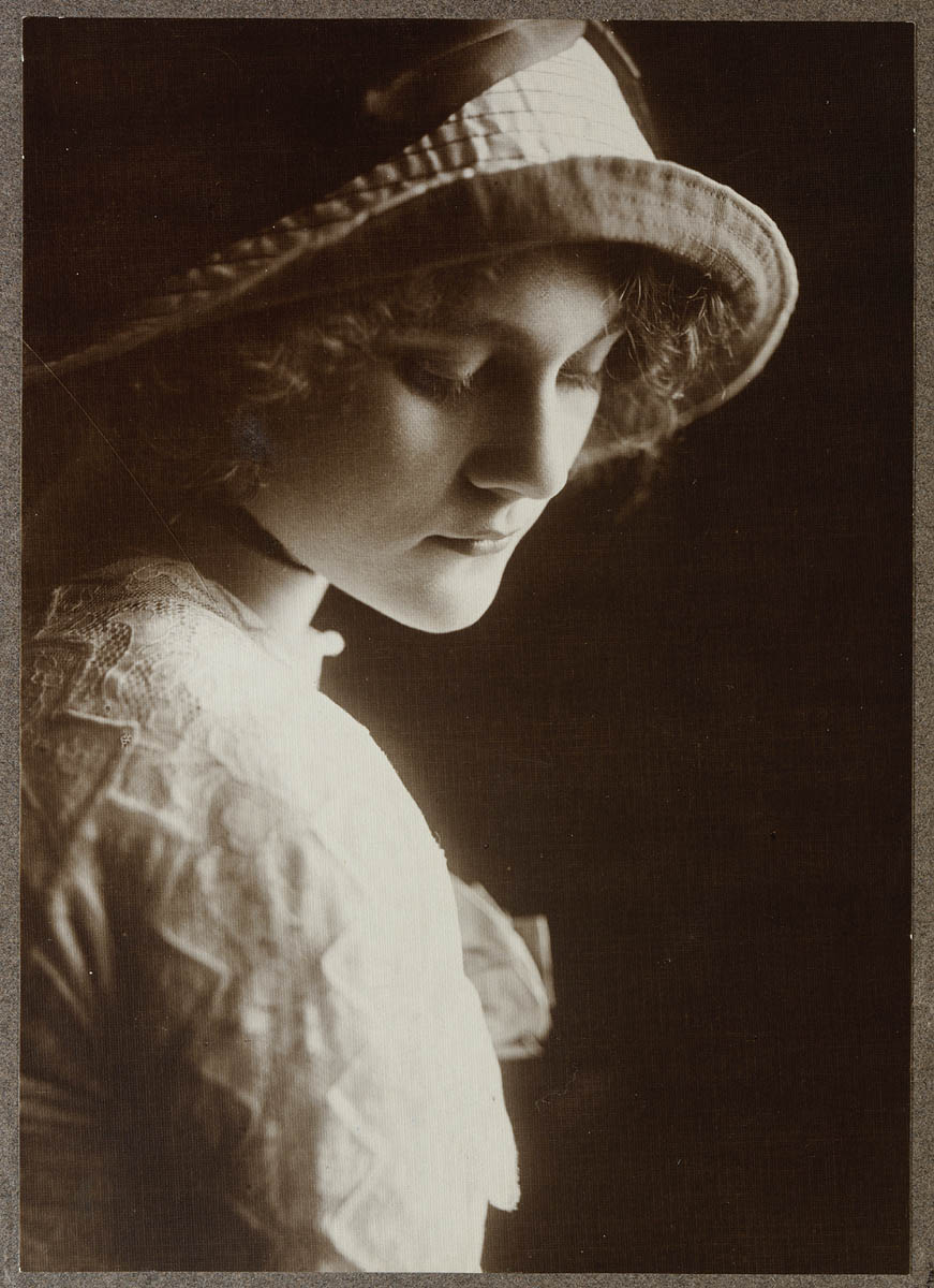 Format: Silver gelatin photoprint Notes: Also known as Louise Lovely. Louise was Australia's first Hollywood star of the silent era. From the collections of the Mitchell Library, State Library of New South Wales Information about photographic collections of the State Library of New South Wales .au/search/SimpleSearch.aspx Persistent url: .au/item/itemDetailPaged.aspx?itemID=442279